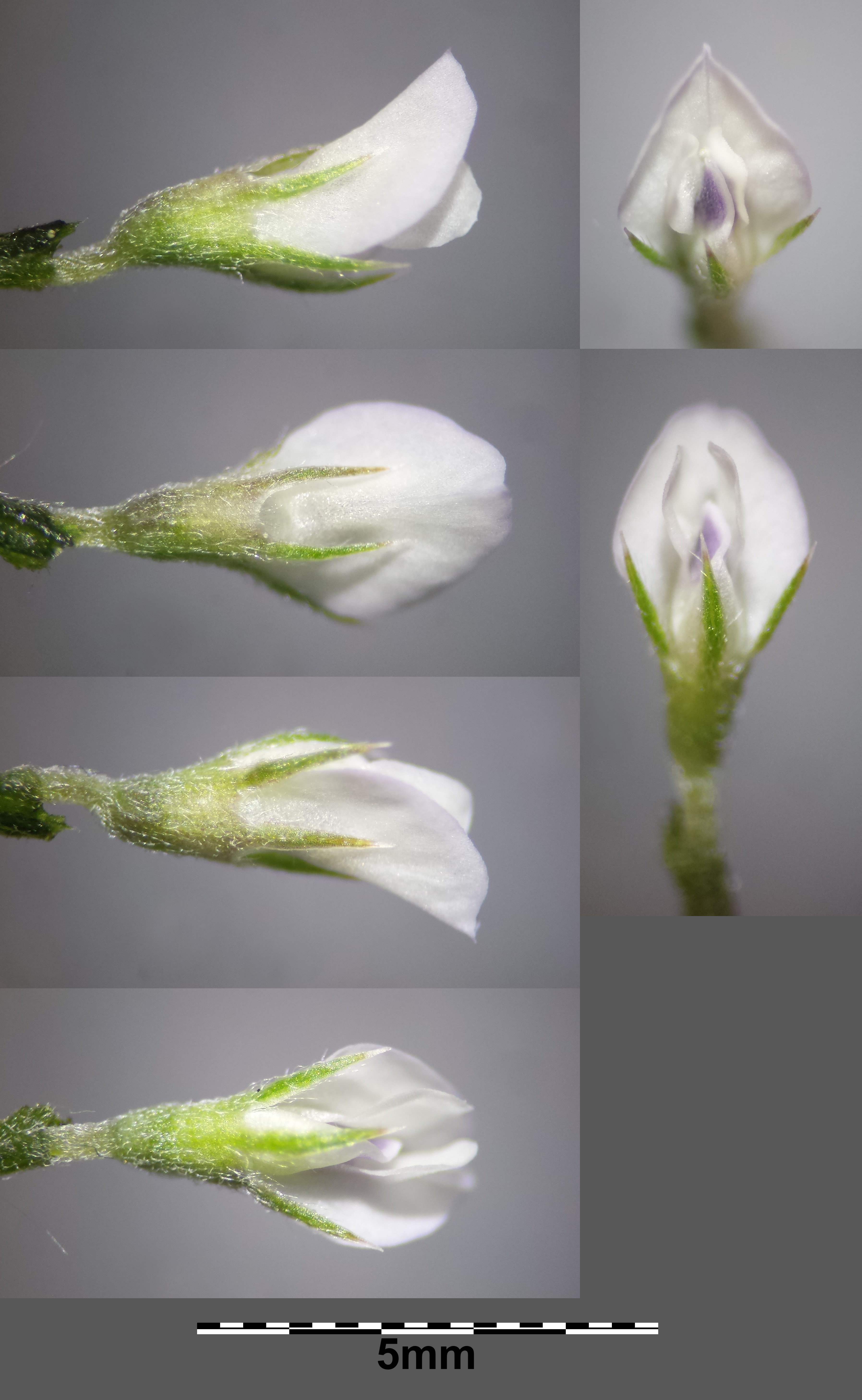 Flower Taxonym: Vicia hirsuta ss Fischer et al. EfÖLS 2008 ISBN 978-3-85474-187-9 Location: Neue Donau, district Korneuburg, Lower Austria - ca. 160 m a.s.l. Habitat: dry slope